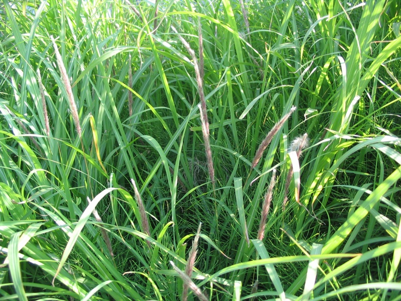 Spikes of Imperata cylindrica.